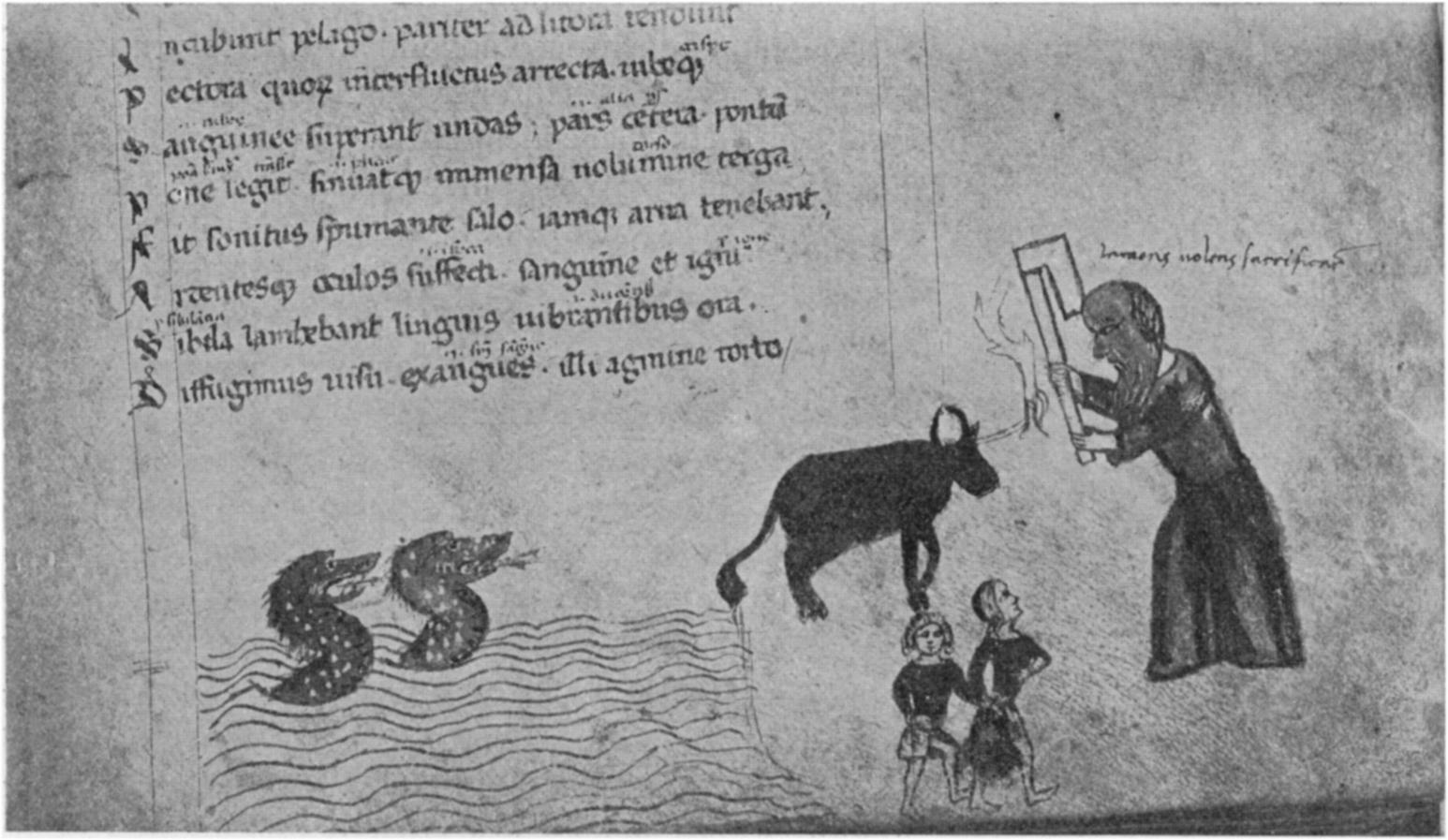 Miniature of the Codex Vaticanus lat. 2761 folium 15r. Description: lacaons volens sacrificare.